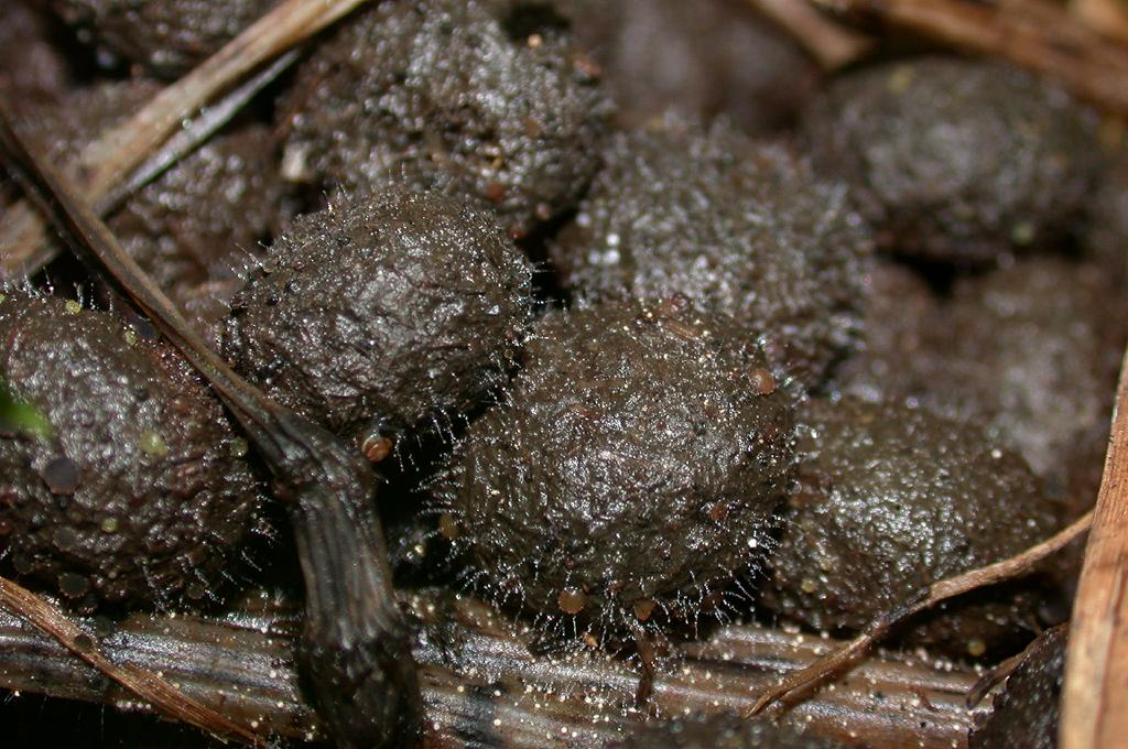 Helicocephalum sp. (H. diplosporum?)(Helicocephalidaceae). On Hare dung